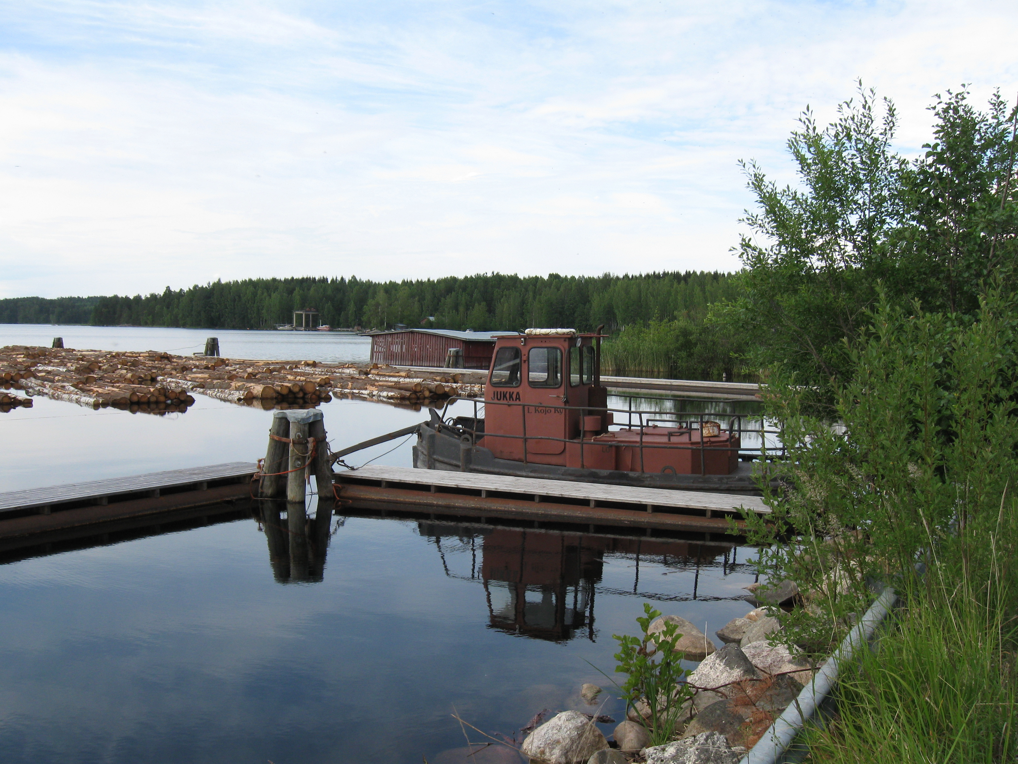 The Putikko harbour in Punkaharju, Finland, seen towards North.